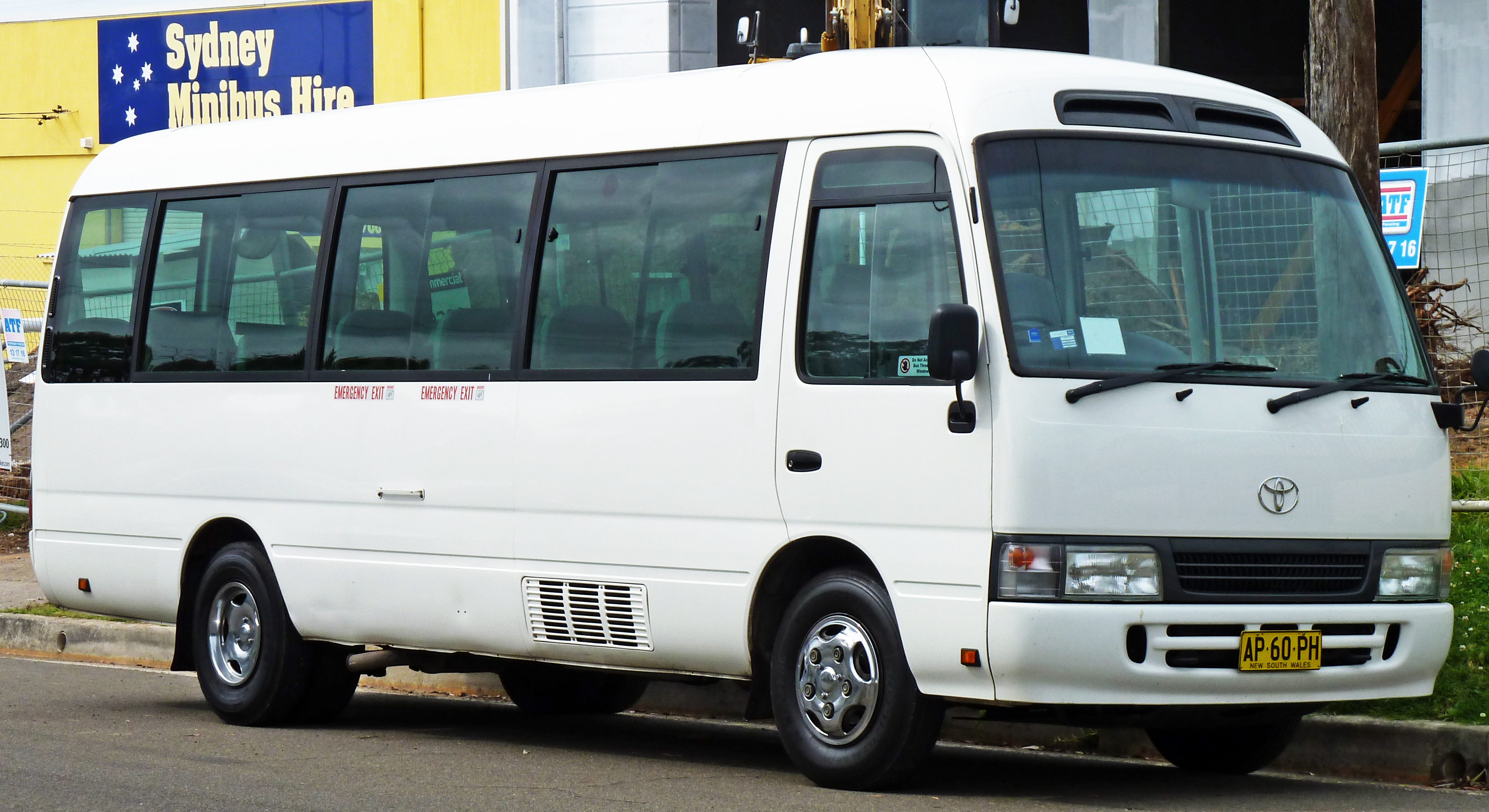 2001–2007 Toyota Coaster bus. Photographed in Caringbah, New South Wales, Australia.